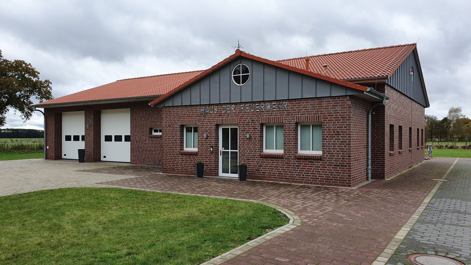 Firestation in Otter